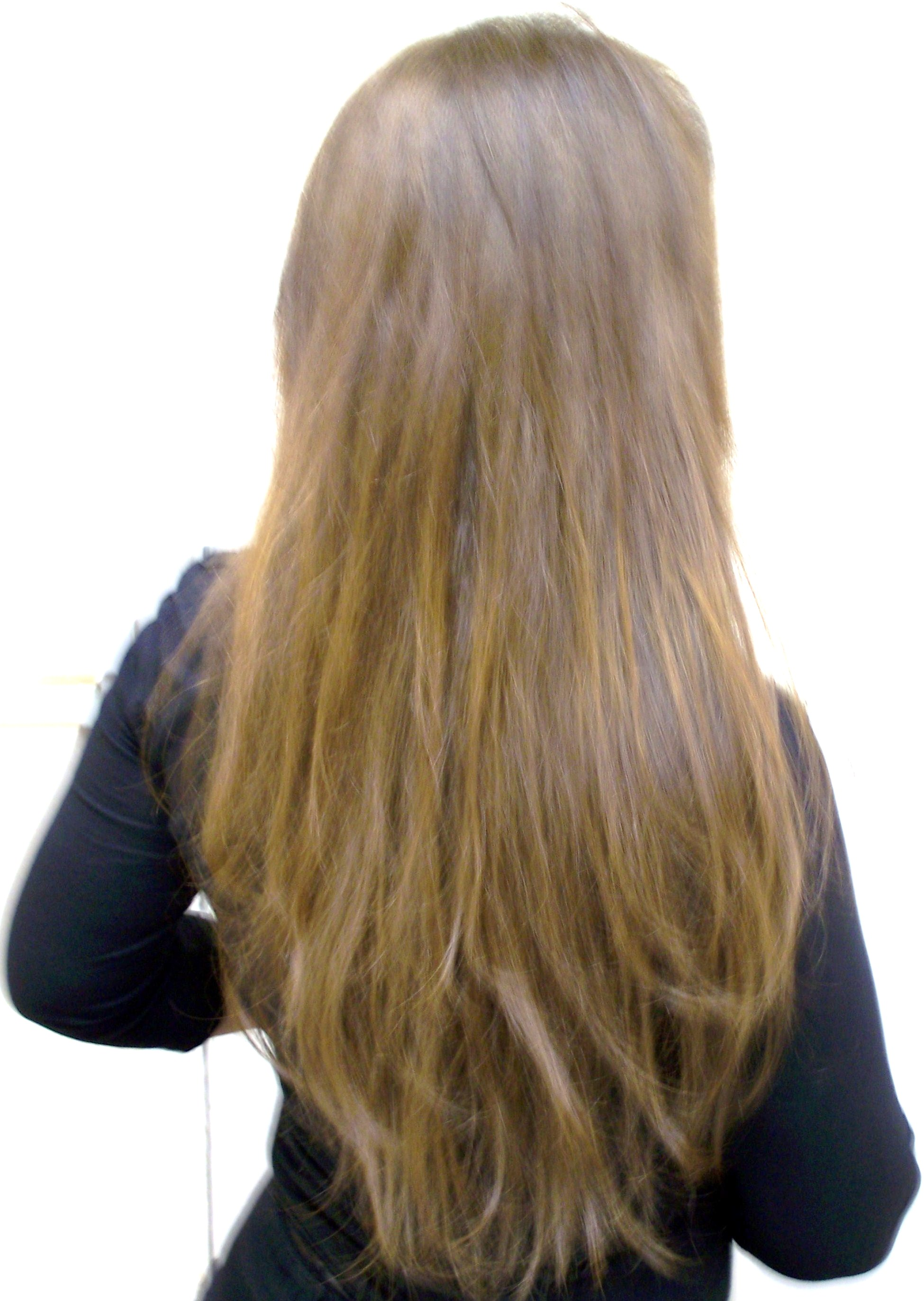 Beautifully hand combed healthy hair